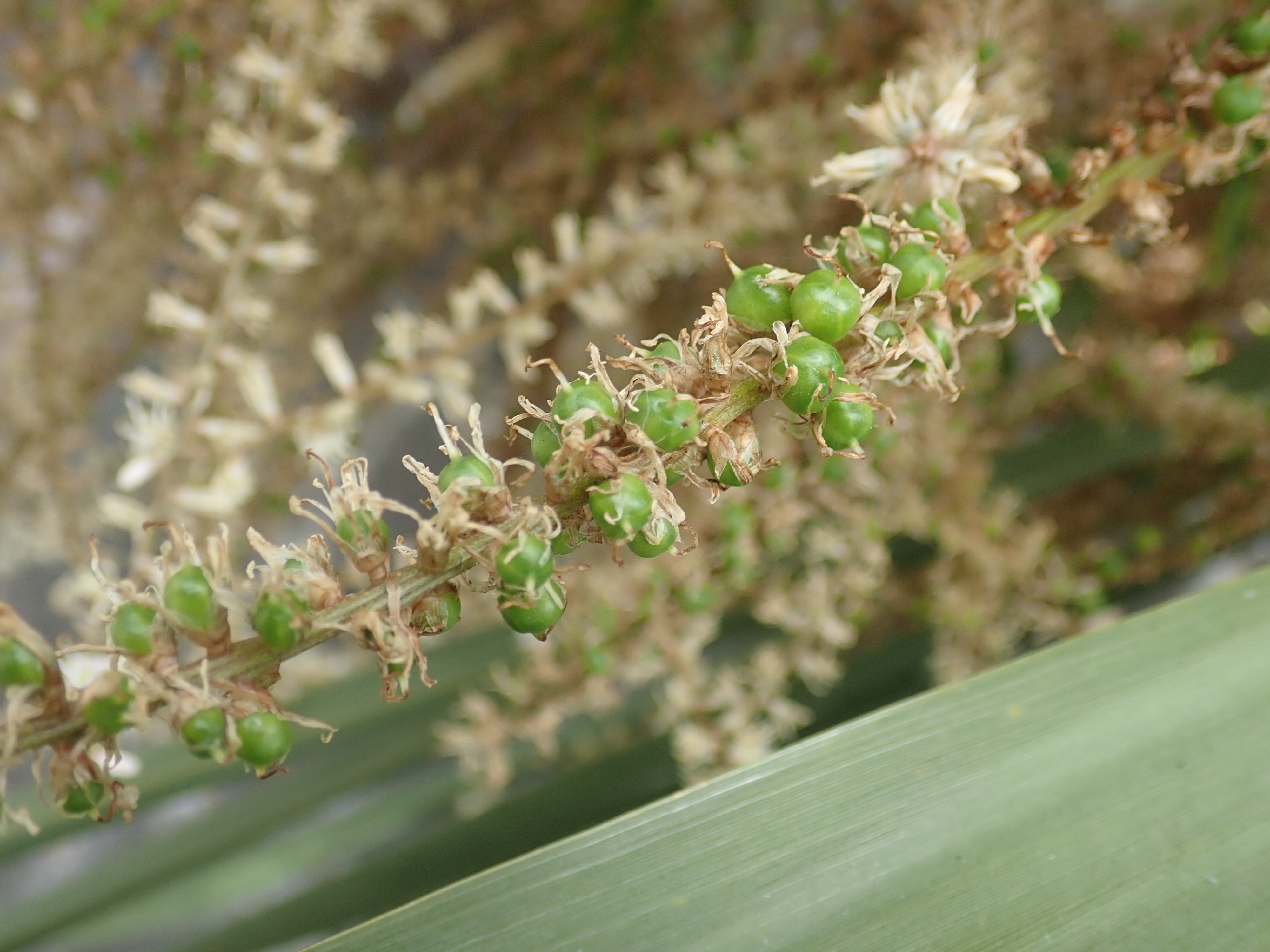 Cordyline australis on a Wellington Street